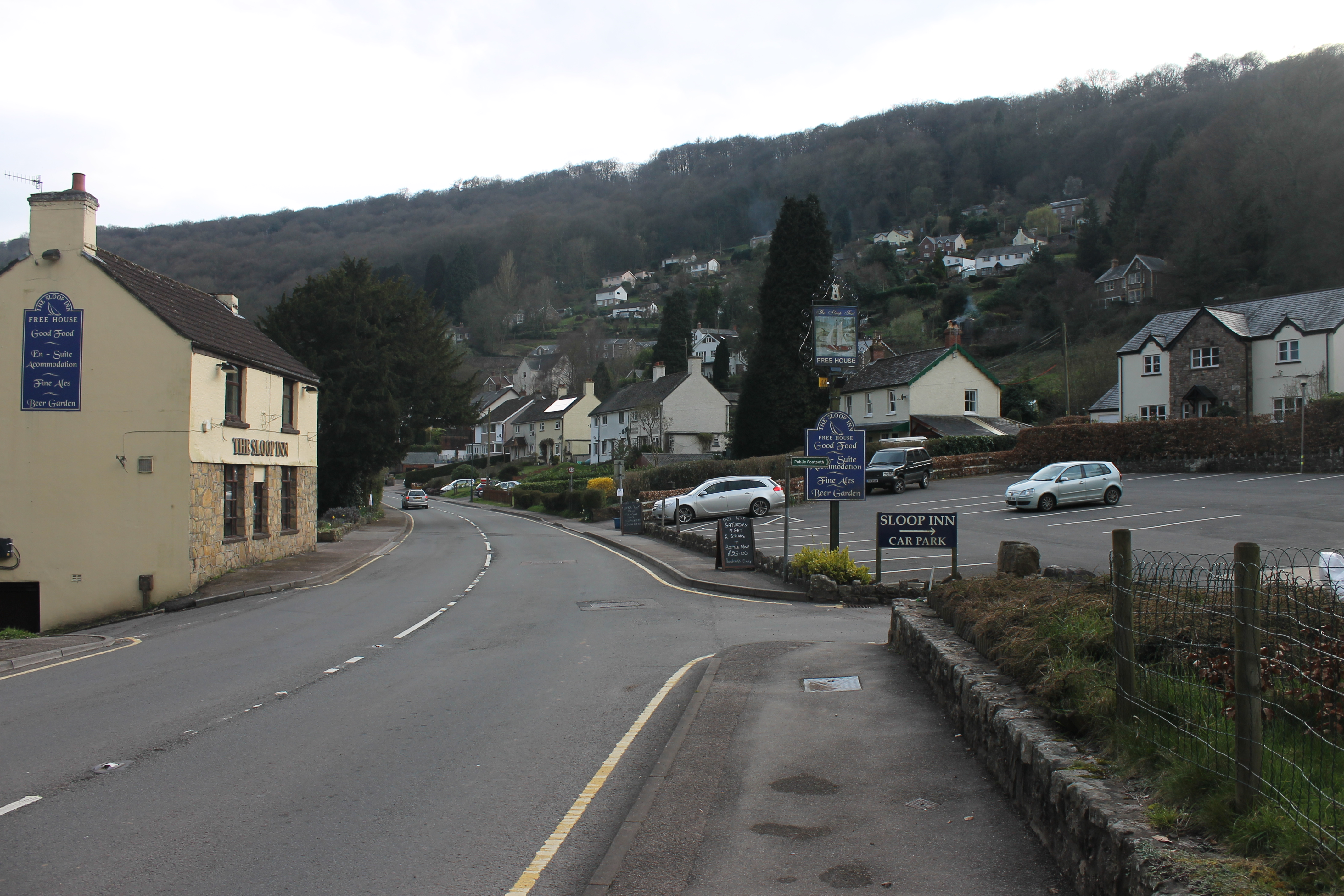 The village of Llandogo, Monmouthshire, Wales, with it's church: St Oudoceus.